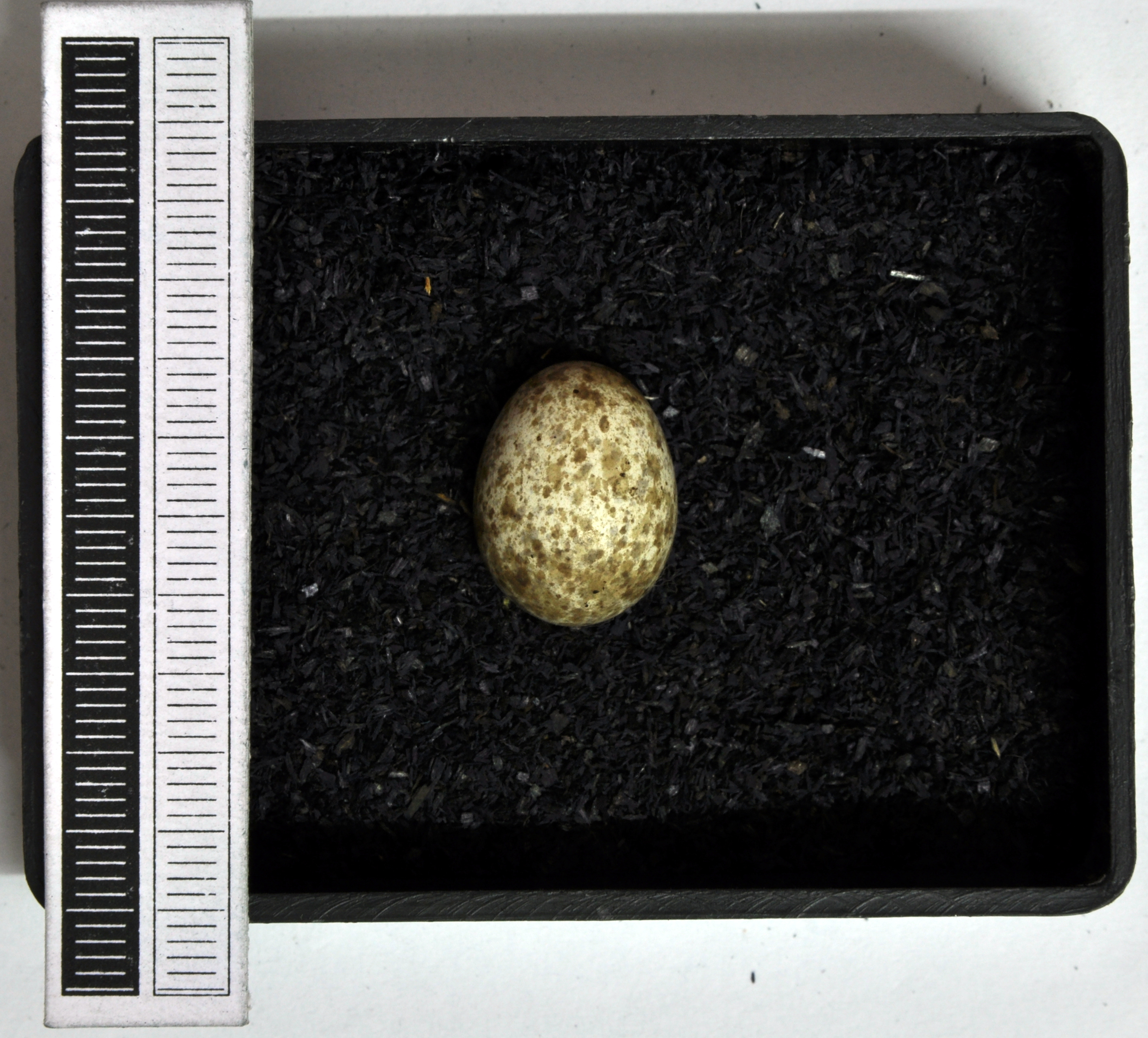 Eurasian reed warbler Acrocephalus scirpaceus, egg, Coll. Museum Wiesbaden, leg. W. Abelmann